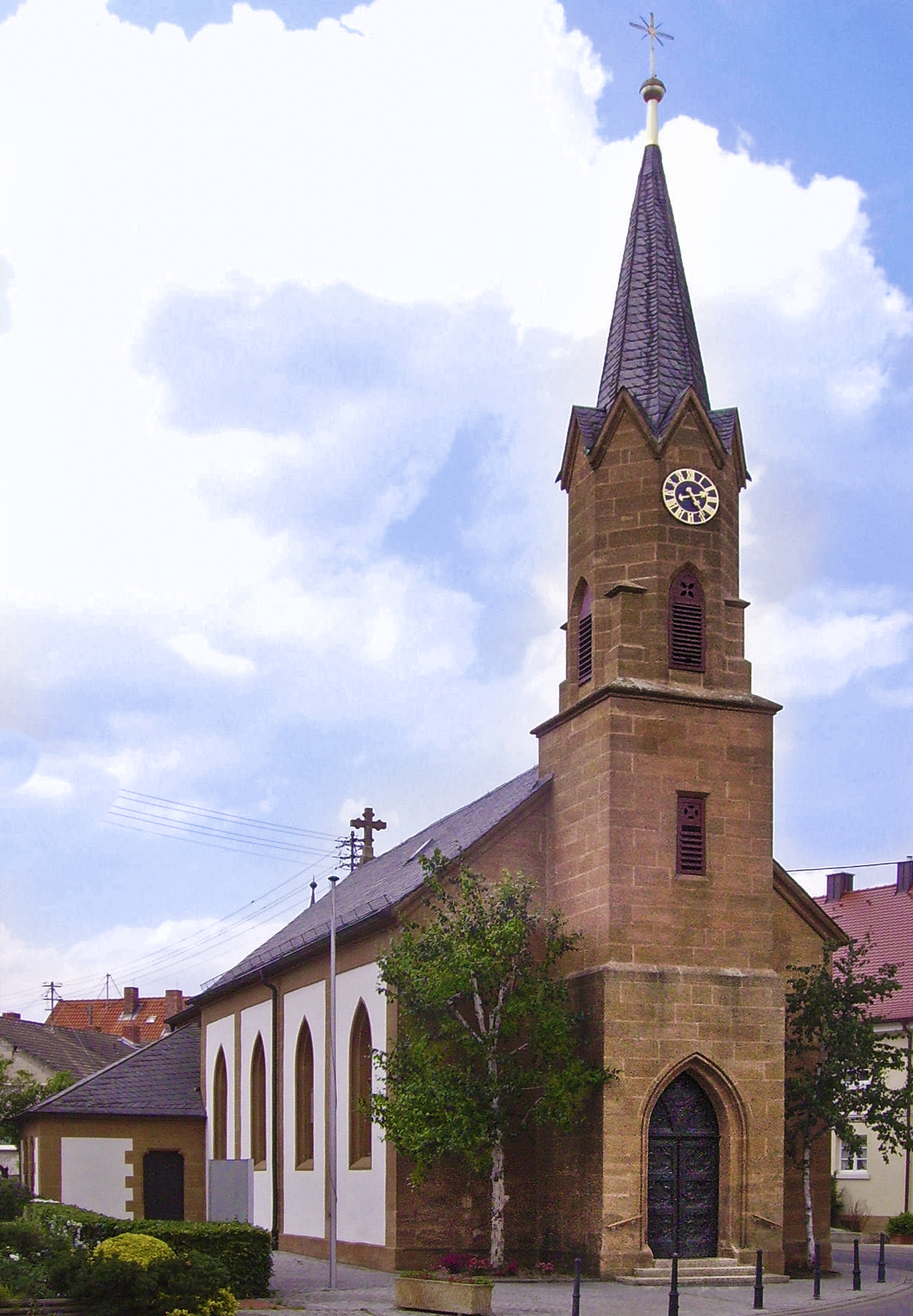 Memmelsdorf-Merkendorf